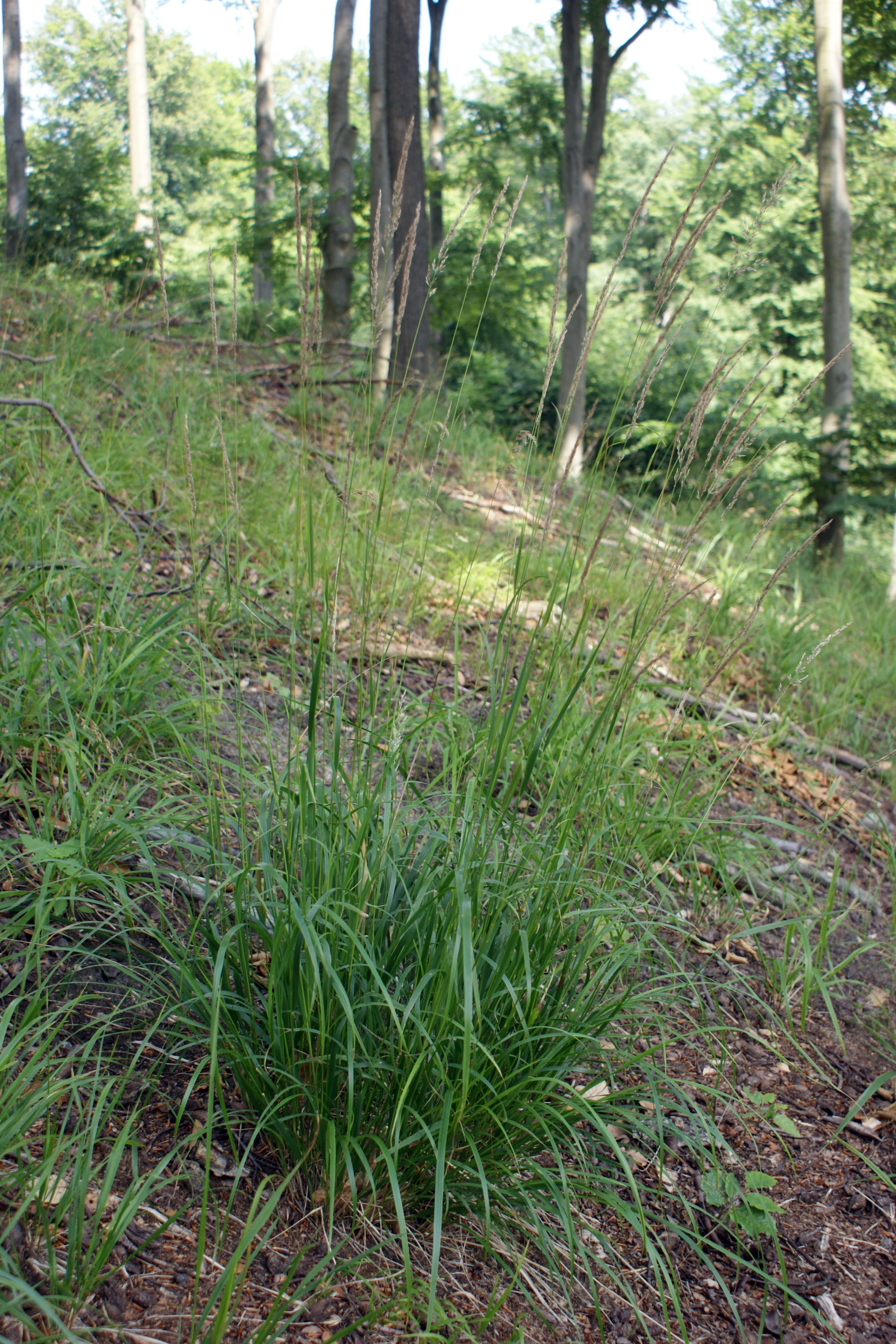 Calamagrostis arundinacea. Near Szczecin (NW Poland)